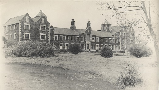 Old photograph of Larne Union Workhouse